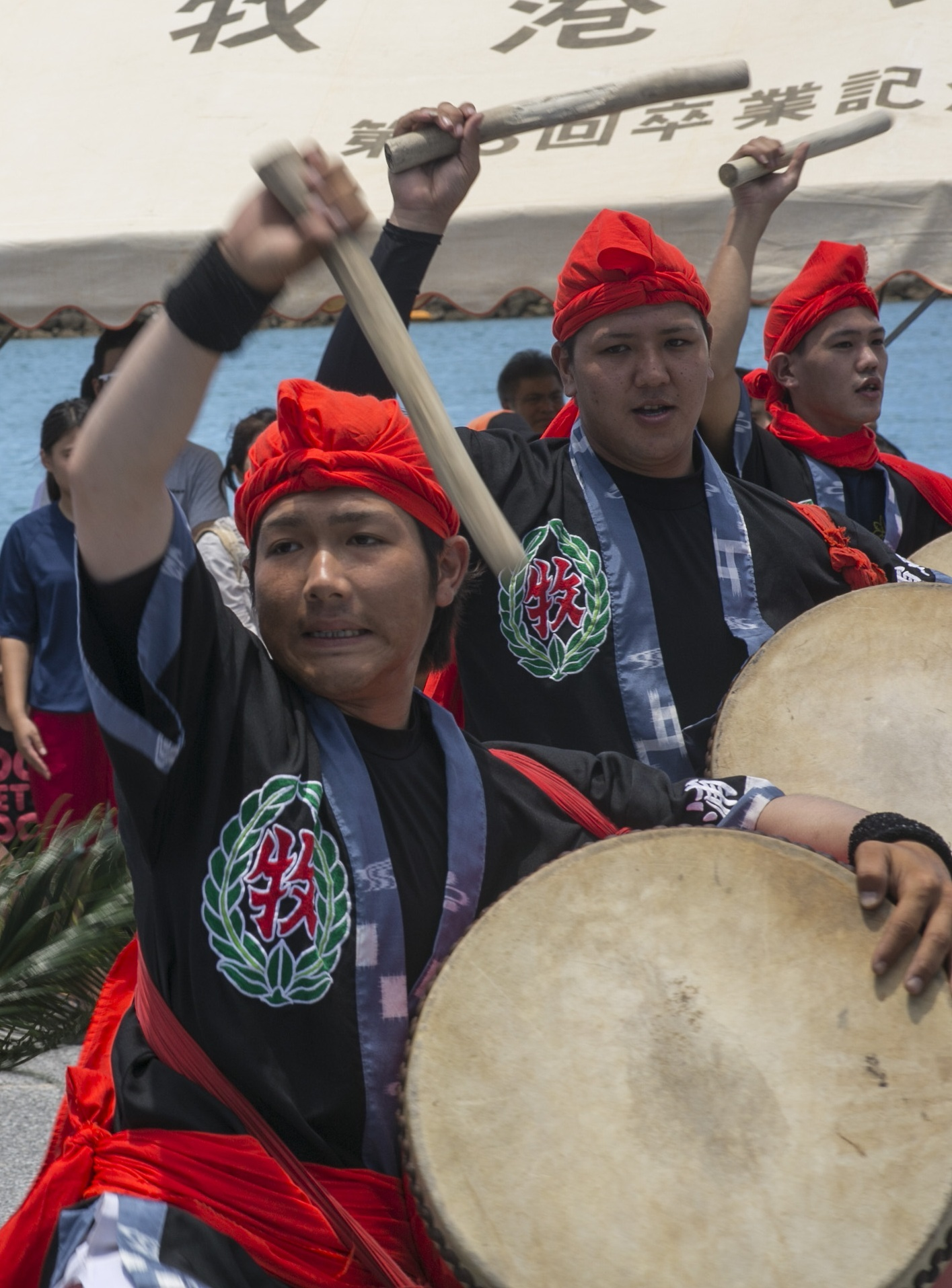 Eisa drummers demonstrate traditional music and dance July 20 between dragon boat races in Urasoe City, Okinawa. The races involved 80 teams, including one from Camp Kinser. The day’s races were part of a three-day annual festival called “Tedako Matsuri.” The event is named in honor of Urasoe’s first king, Eiso, who was believed to be the “tedako,” which means “child of the sun” in the Okinawan dialect. (U.S. Marine Corps photo by Lance Cpl. Pete Sanders/Released)